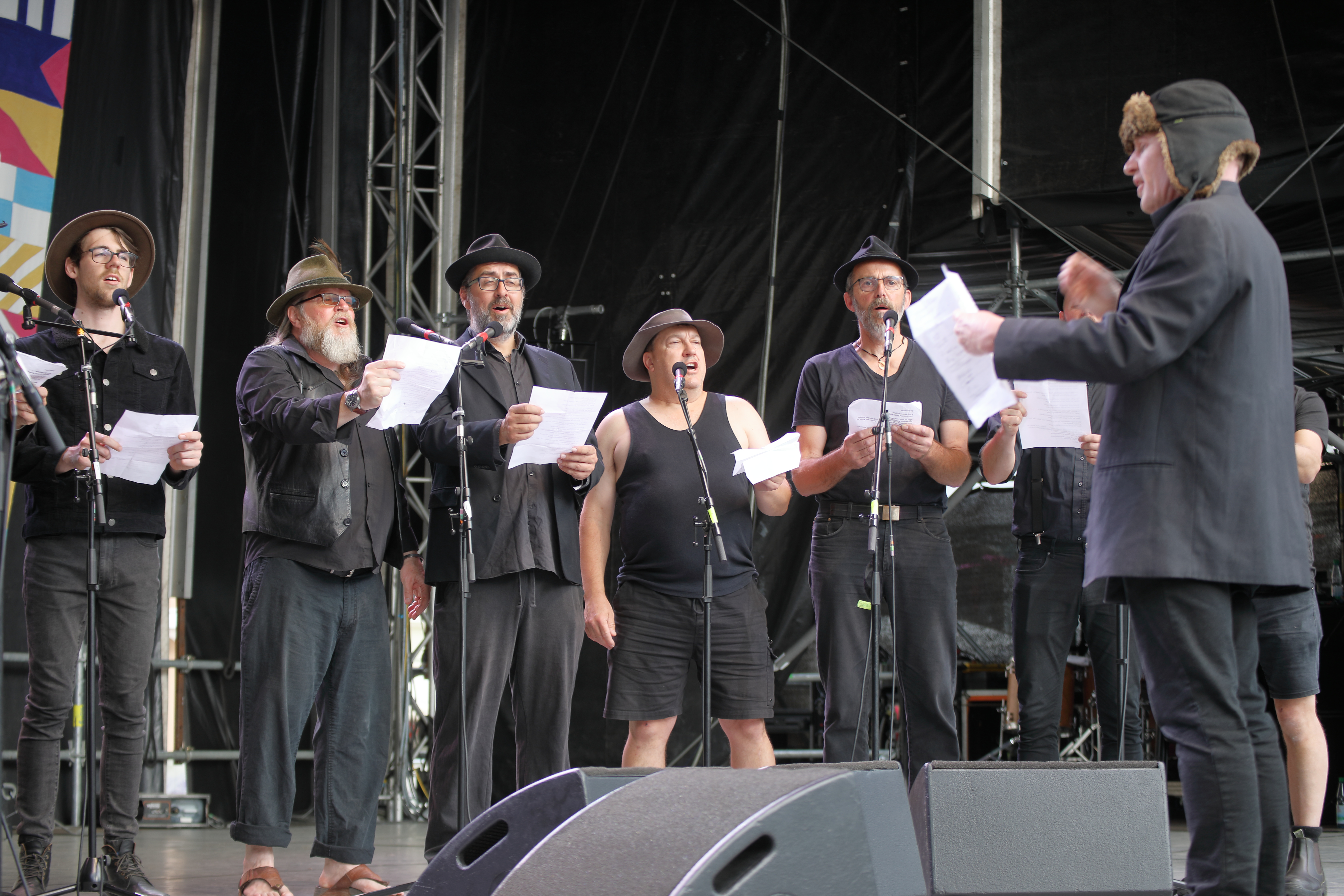 The Spooky Men´s Chorale, a men´s choir from Australia, performing on the Big Stage at the market place during Rudolstadt-Festival 2019.